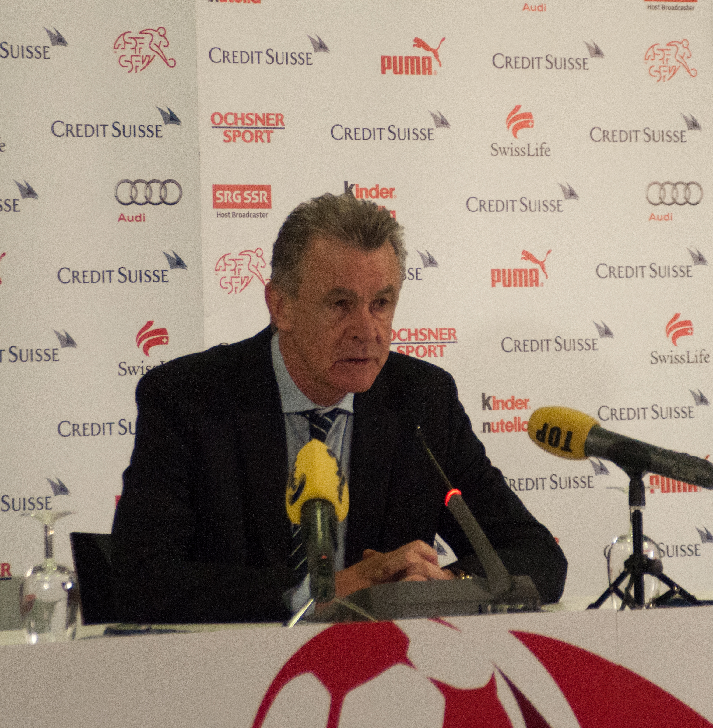 The making of this document was supported by Wikimedia CH. (Submit your project!) For all the files concerned, please see the category Supported by Wikimedia CH. Switzerland vs. Argentina, 29th February 2012